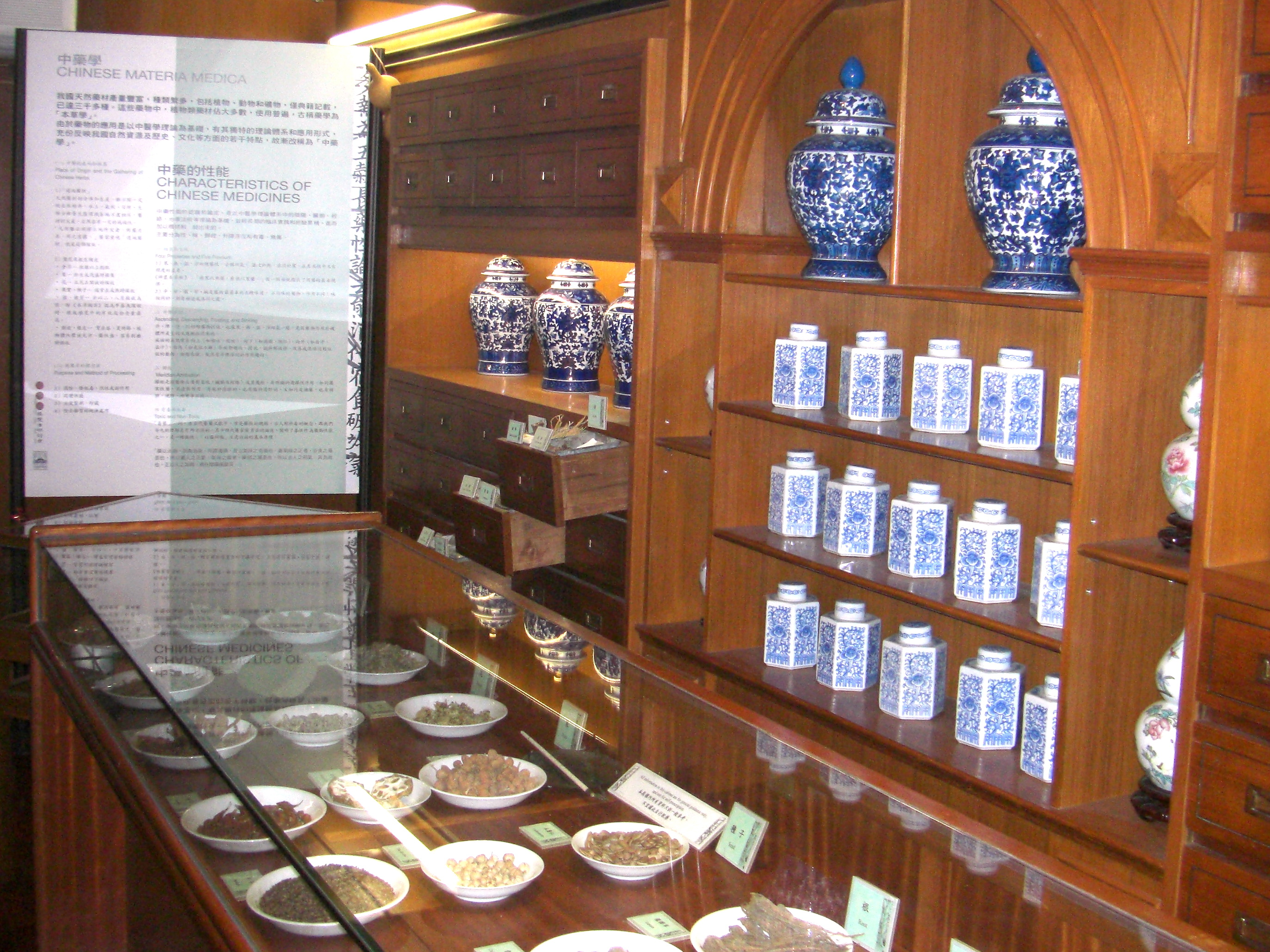 The Herbalist Shop exhibit in the basement of the Hong Kong Museum of Medical Sciences, Hong Kong.